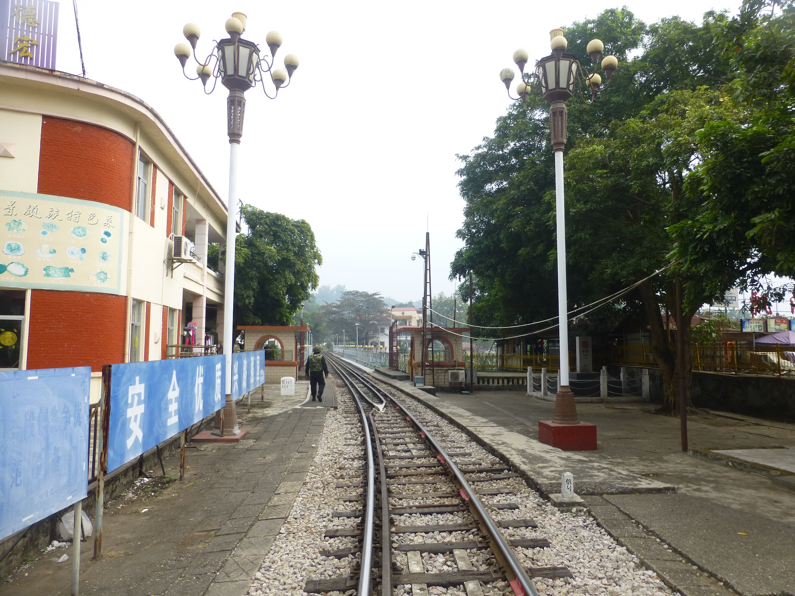 The old meter-gauge Vietnam-Yunnan Railway in Hekou Town, at its approach to the railway bridge across the border river.